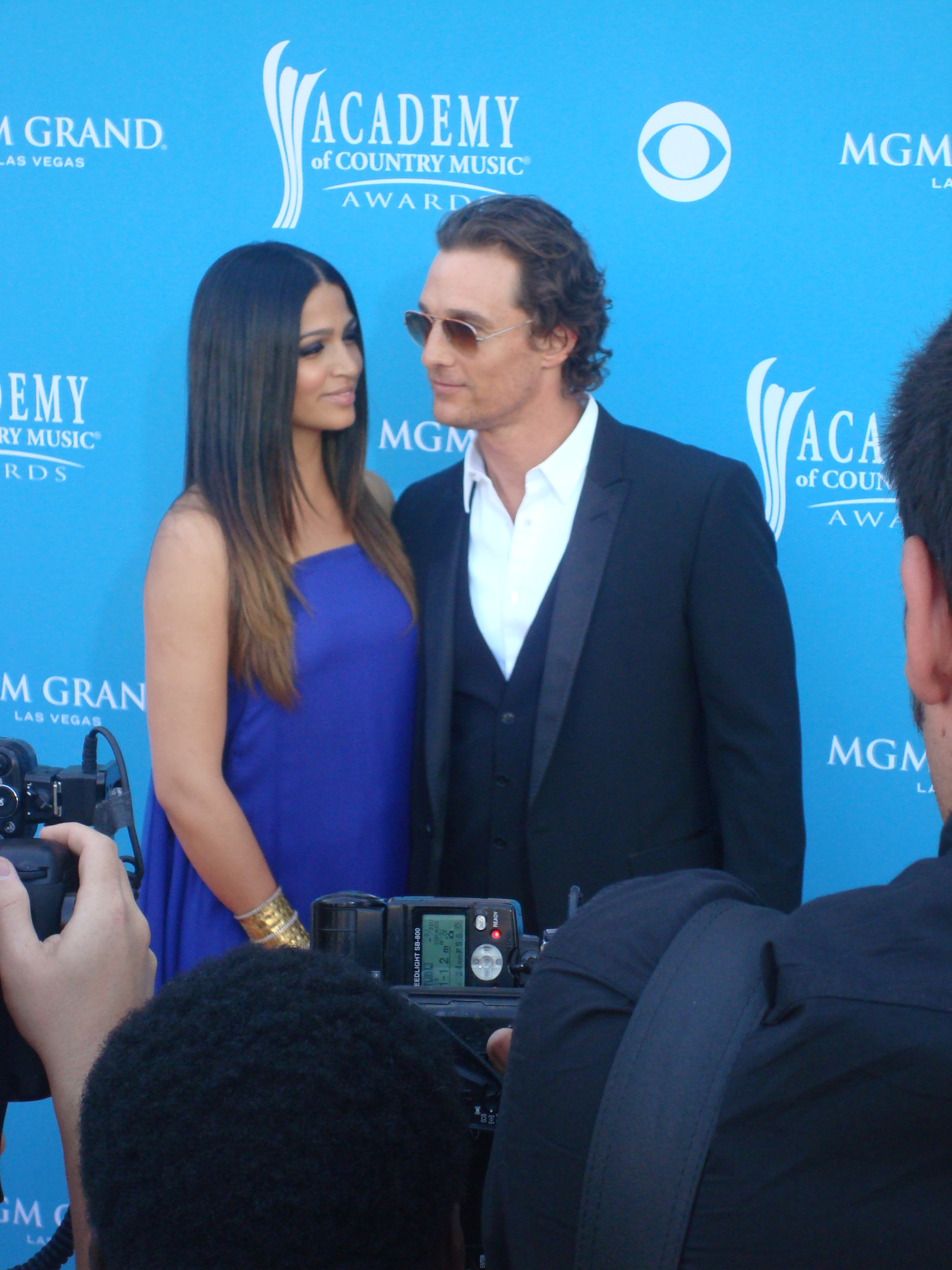 Camila Alves & Matthew McConaughey